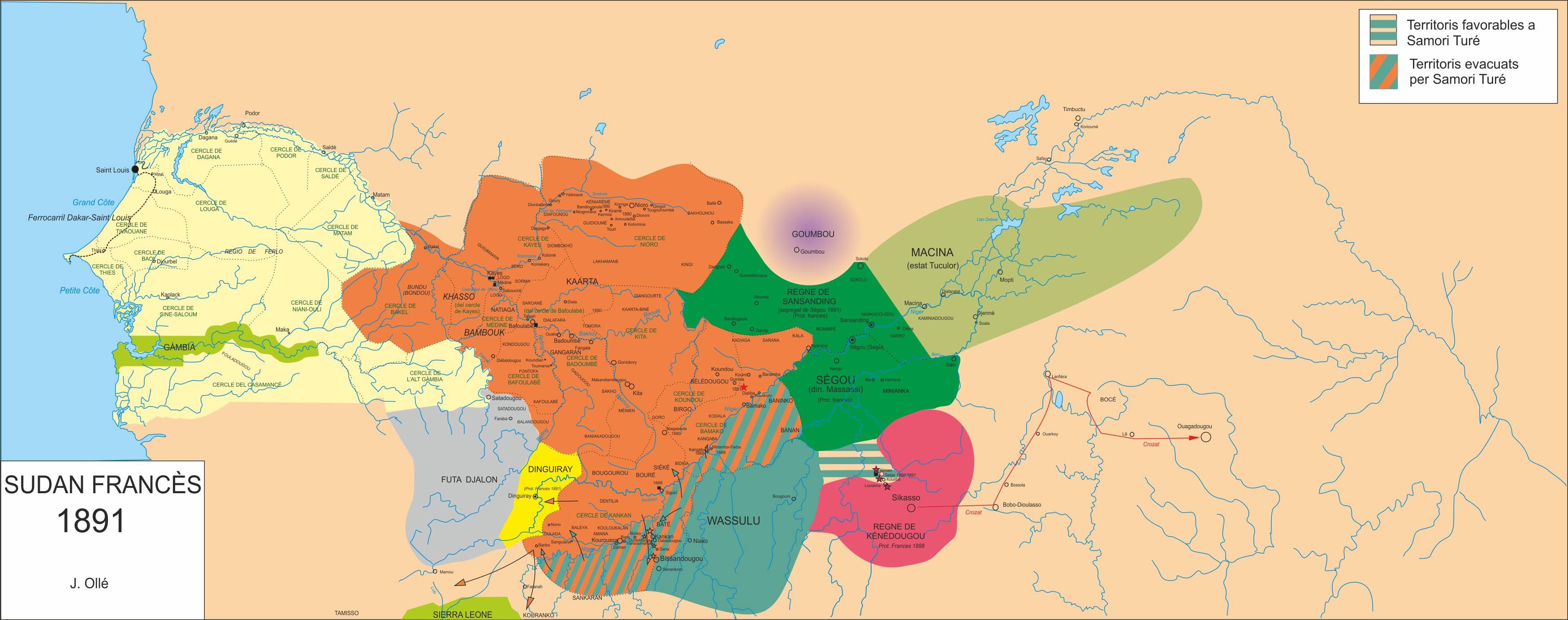 Senegal & Mali 1891, II